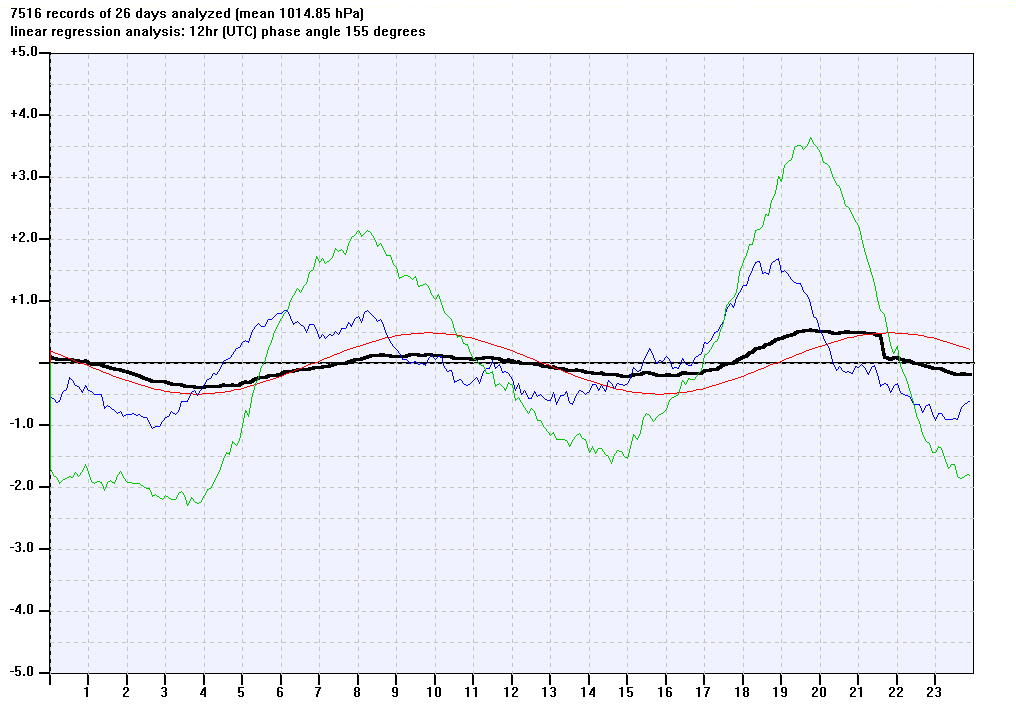 Diurnal rhythm of air pressure, recorded in northern Germany in september 2004 by M. Redecke. Own work, barograph used (BG2412) and software was from Bohlken Westerland. I am the manufacturer of the barograph and I wrote the software for analysis. air pressure: black best fit: red 1 hour tendency: blue 3 hours tendency: green All rights released. units of y-axis: unknown